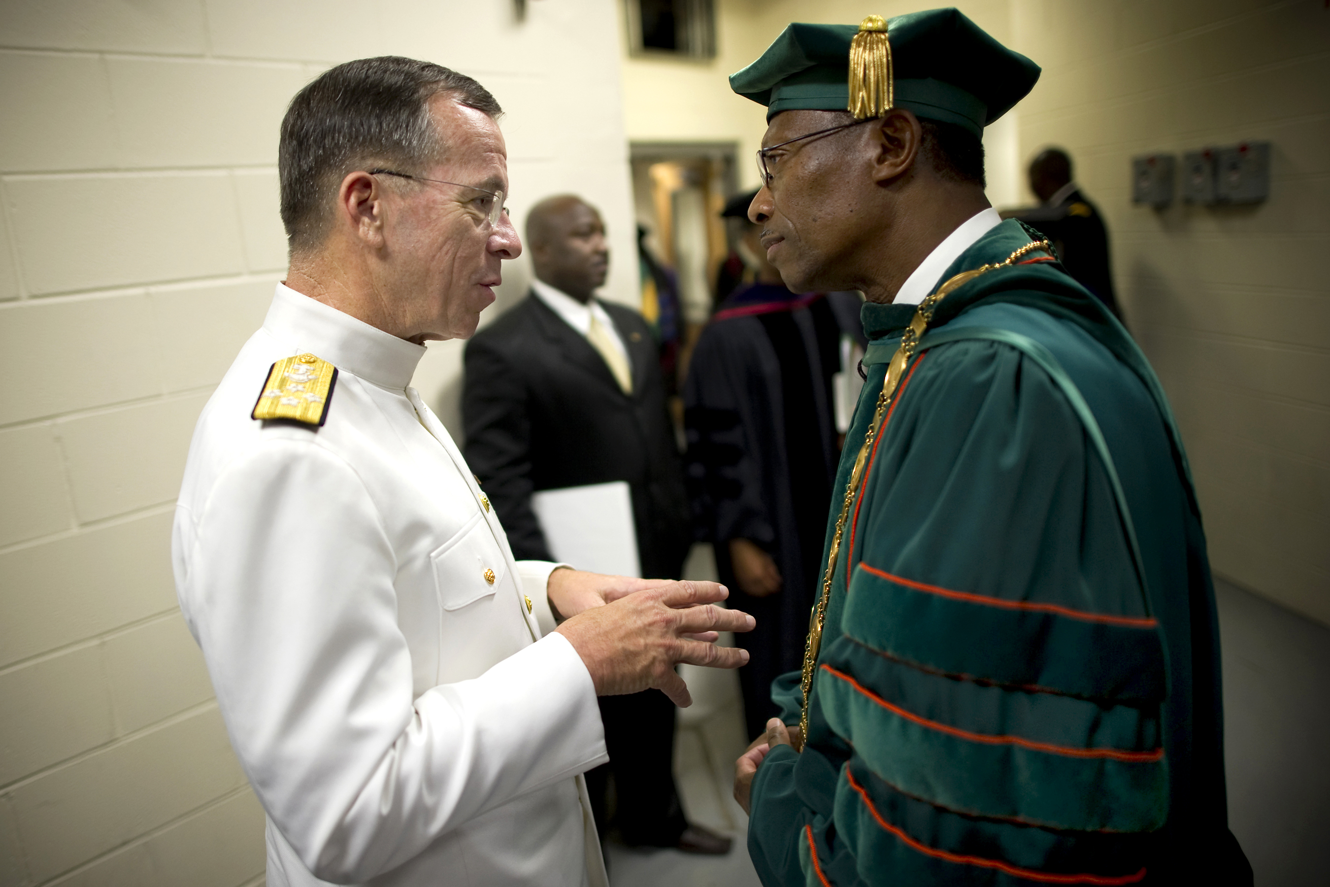 Navy Adm. Mike Mullen, chairman of the Joint Chiefs of Staff, speaks with Florida A&M University President James H. Ammons at Florida A&M University's commencement ceremonies in Tallahassee, Fla., May 1, 2010.